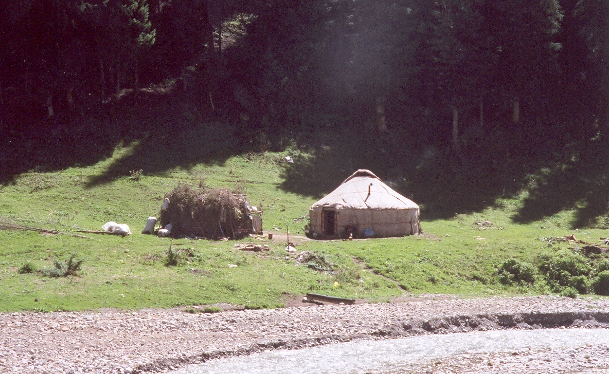 In the Ili River valley (Ili Kazakh Autonomous Prefecture, Xinjiang Uighur AR)